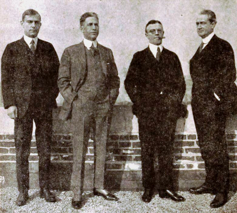 Taken just after the signing of a contract for Nomads of the North, from left: E. B. Johnson, author James Oliver Curwood, secretary and treasurer for First National Pictures H. O. Schwalbe, and film director David Hartford, on page 36 of the April 17, 1920 Exhibitors Herald.